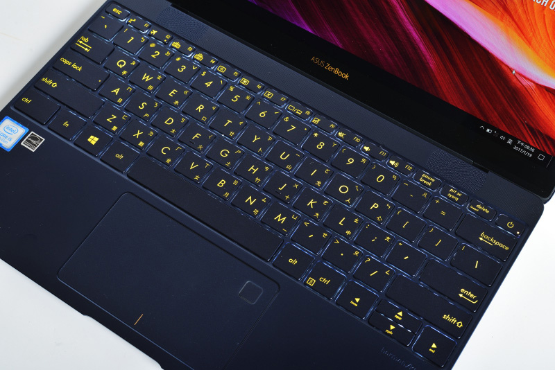 Zenbook keyboard